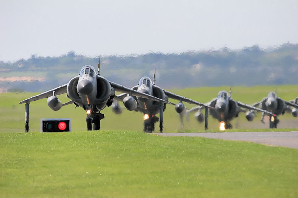 Seen the day before the airshow, 5 (yes, 5!) retired Sea Harriers are seen taxying to their static display slots. This was a unique sight, so I hope you can excuse the excessive heat-haze.